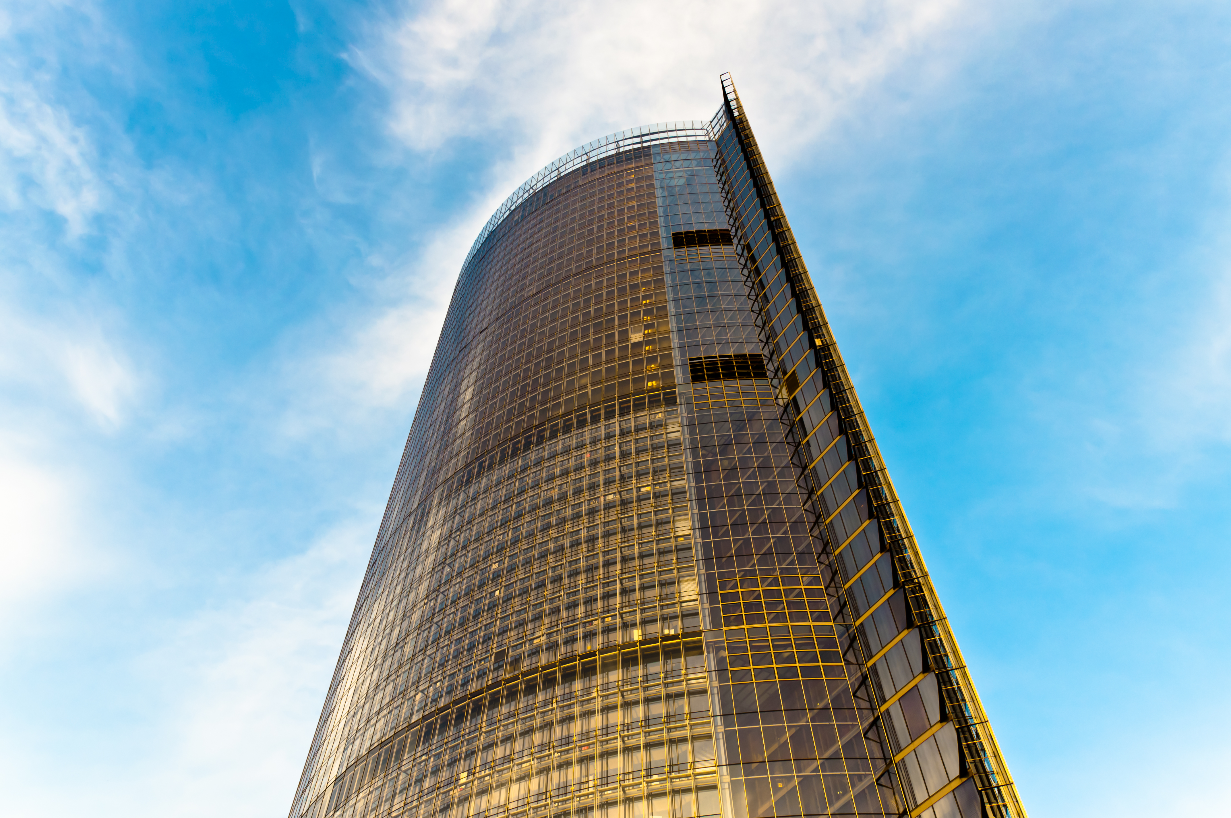 The Post Tower in Bonn at sunset.